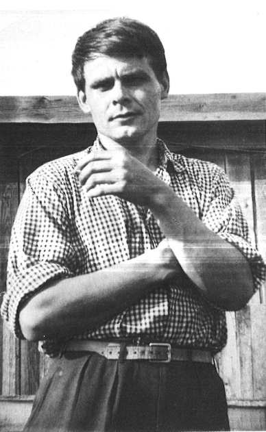 Photograph of the Finnish painter Alpo Jaakola (1929–1997).